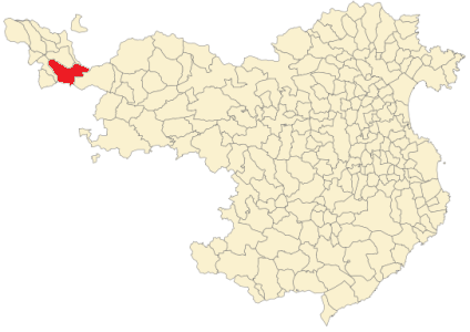 Alp